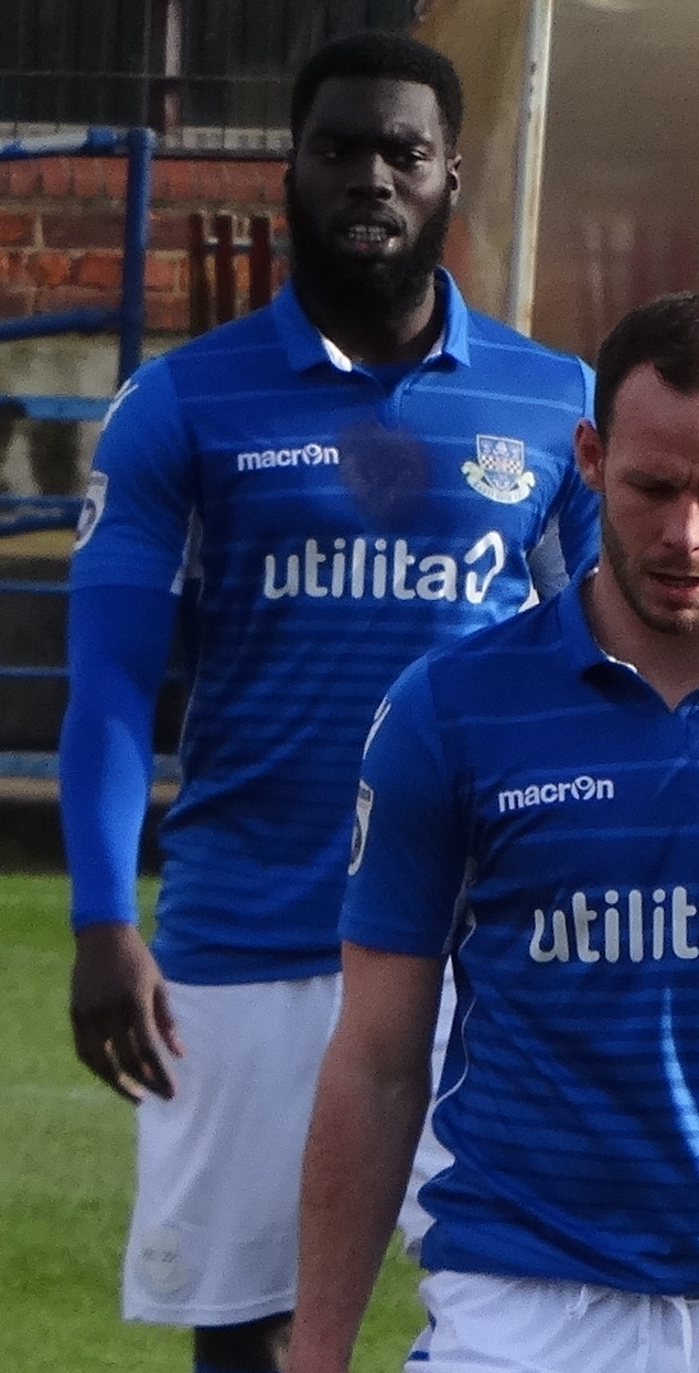 Ayo Obileye playing for Eastleigh against York City at Bootham Crescent, York on 4 March 2017